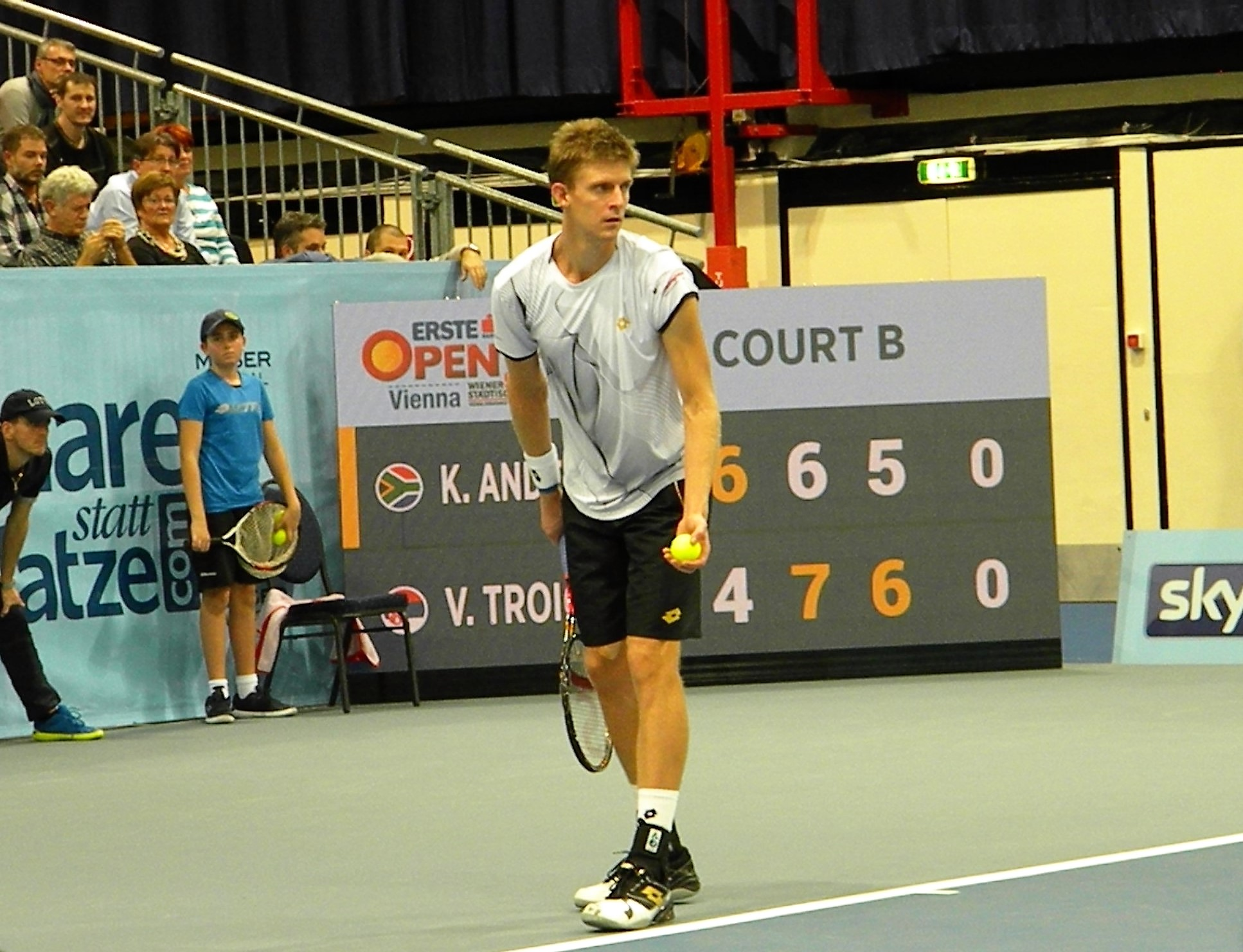 10/25/2016; Viktor Troicki (Serbia) - Kevin Anderson (South Africa) 2-1; First Round